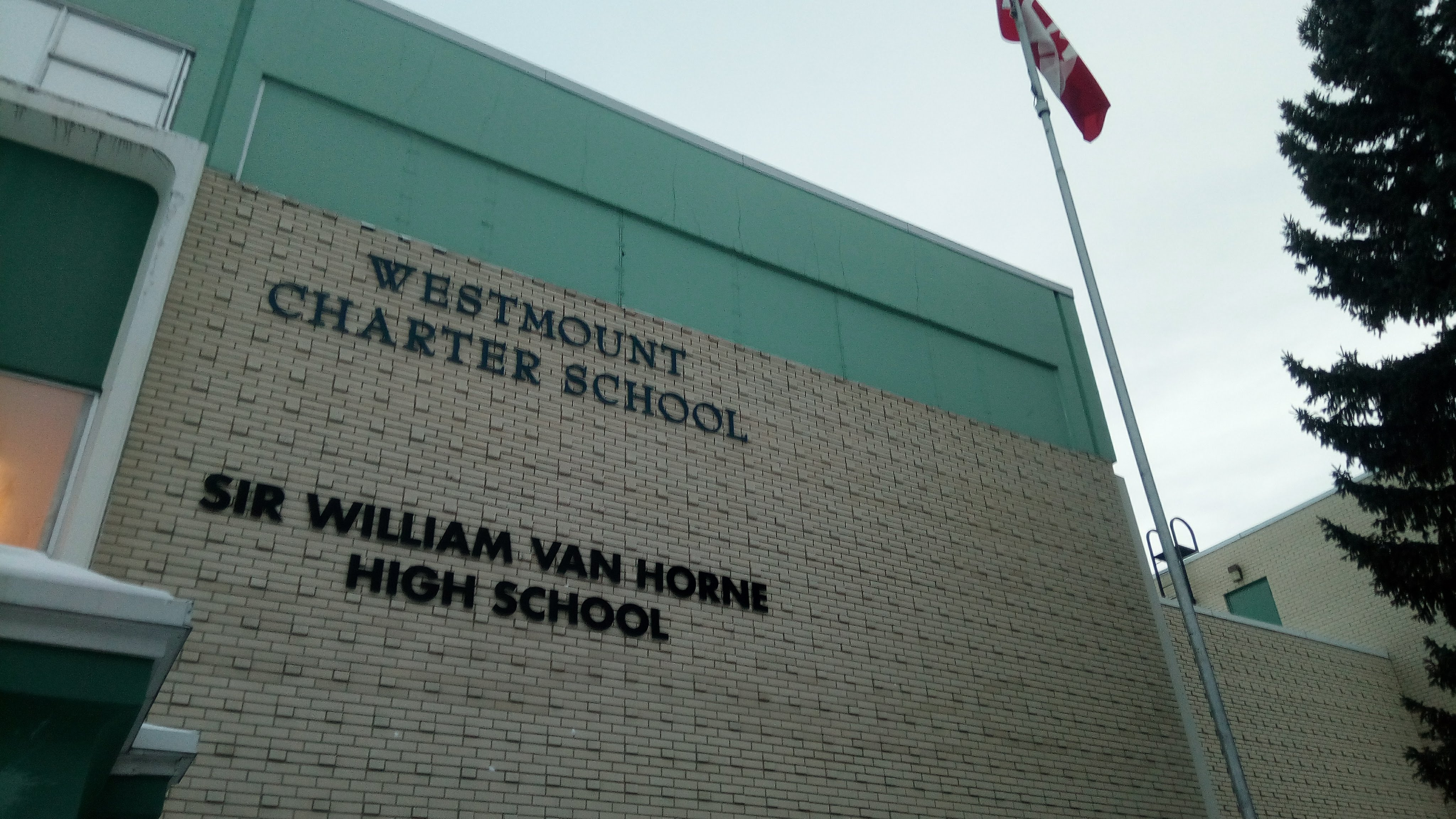 This is the new location of Westmount Charter School